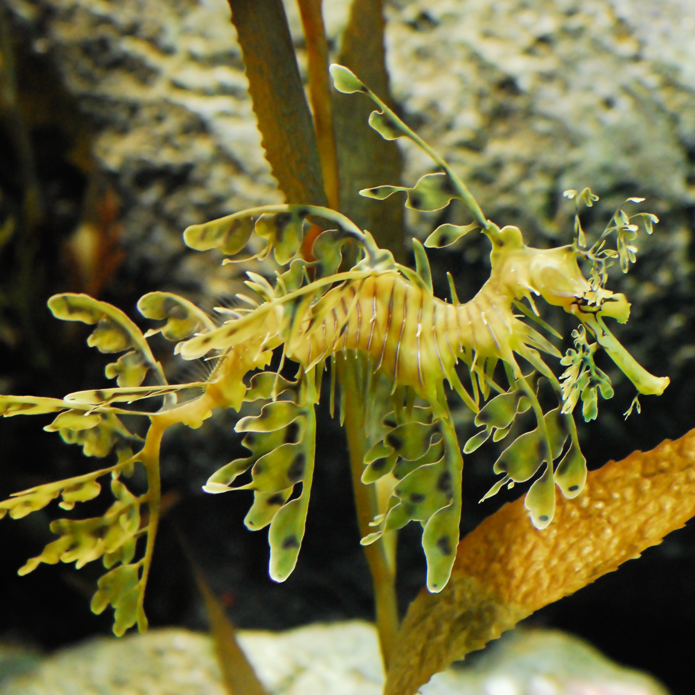 A Leafy sea dragon as seen at the Monterey Bay Aquarium